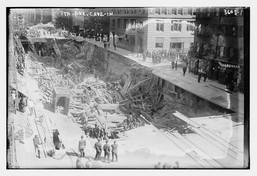 Seventh Avenue subway collapse looking from above